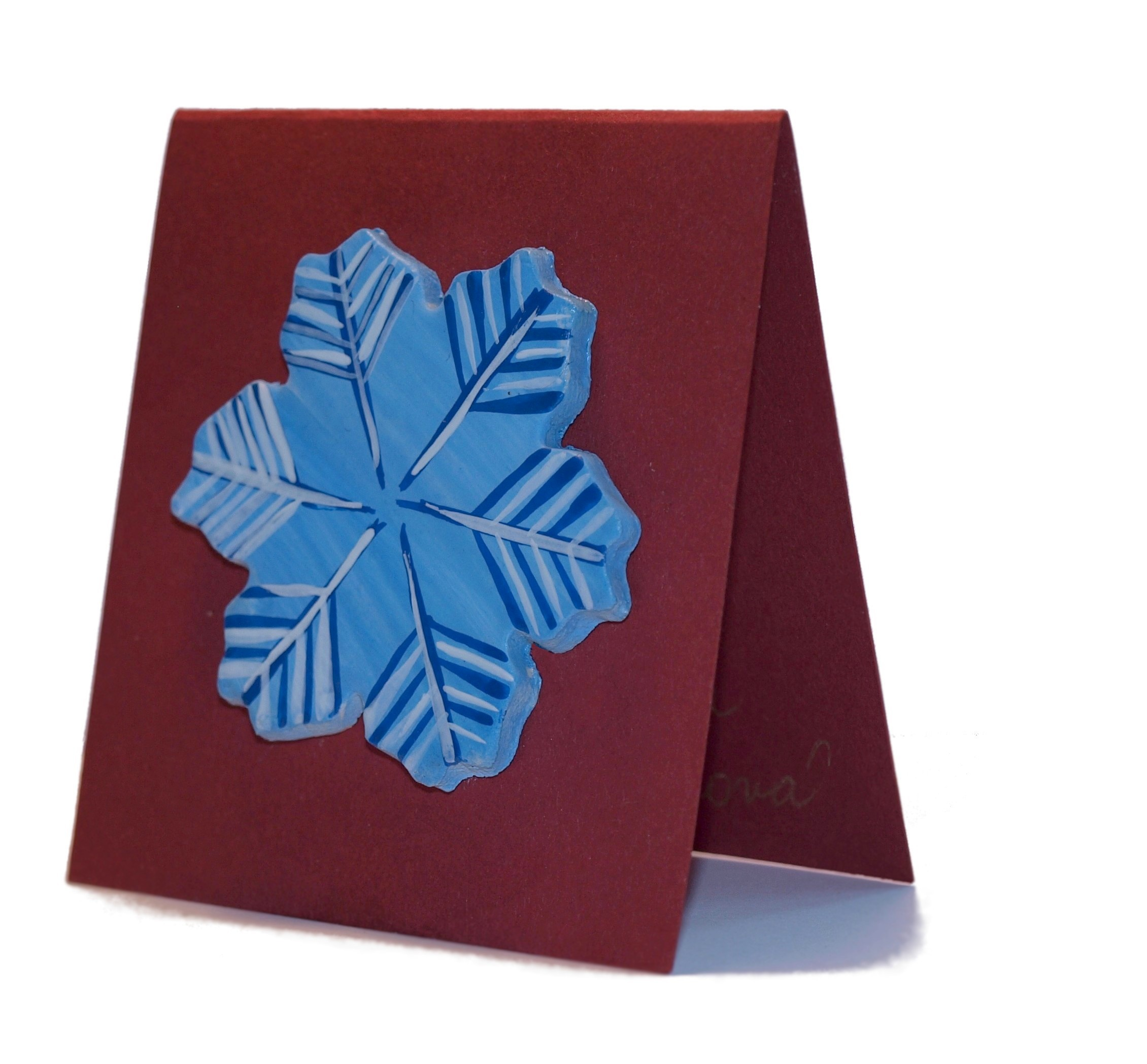 Pour féliciter card with ceramic snowflake